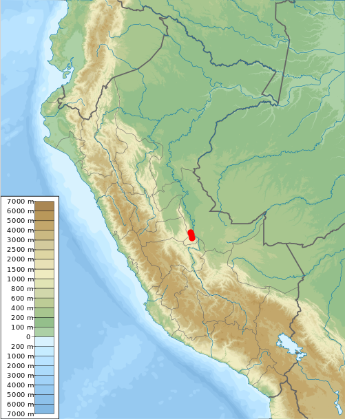 Range of the Sira barbet in central Peru